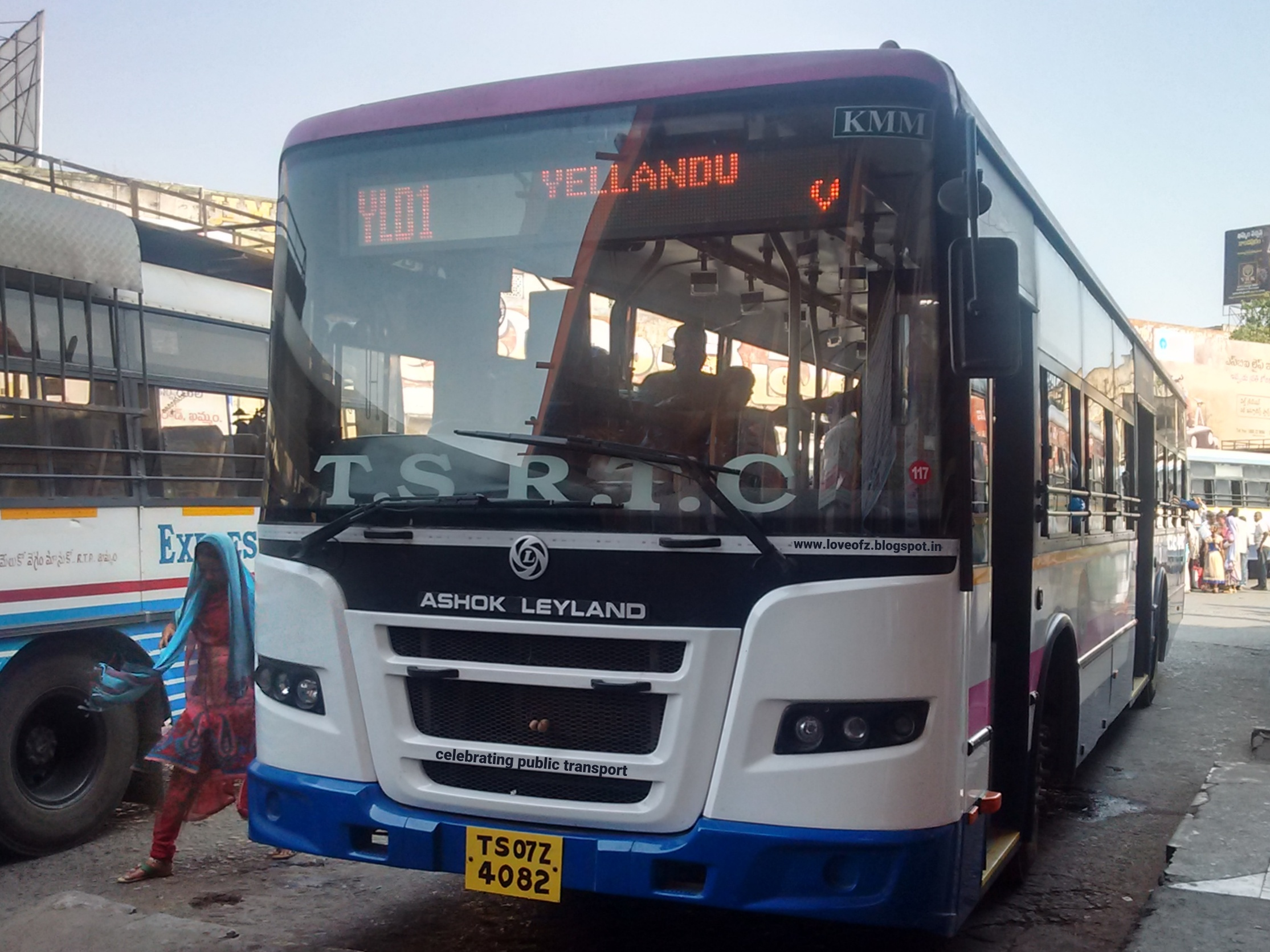 TSRTC's JnNURM Metro Express bus in Khammam